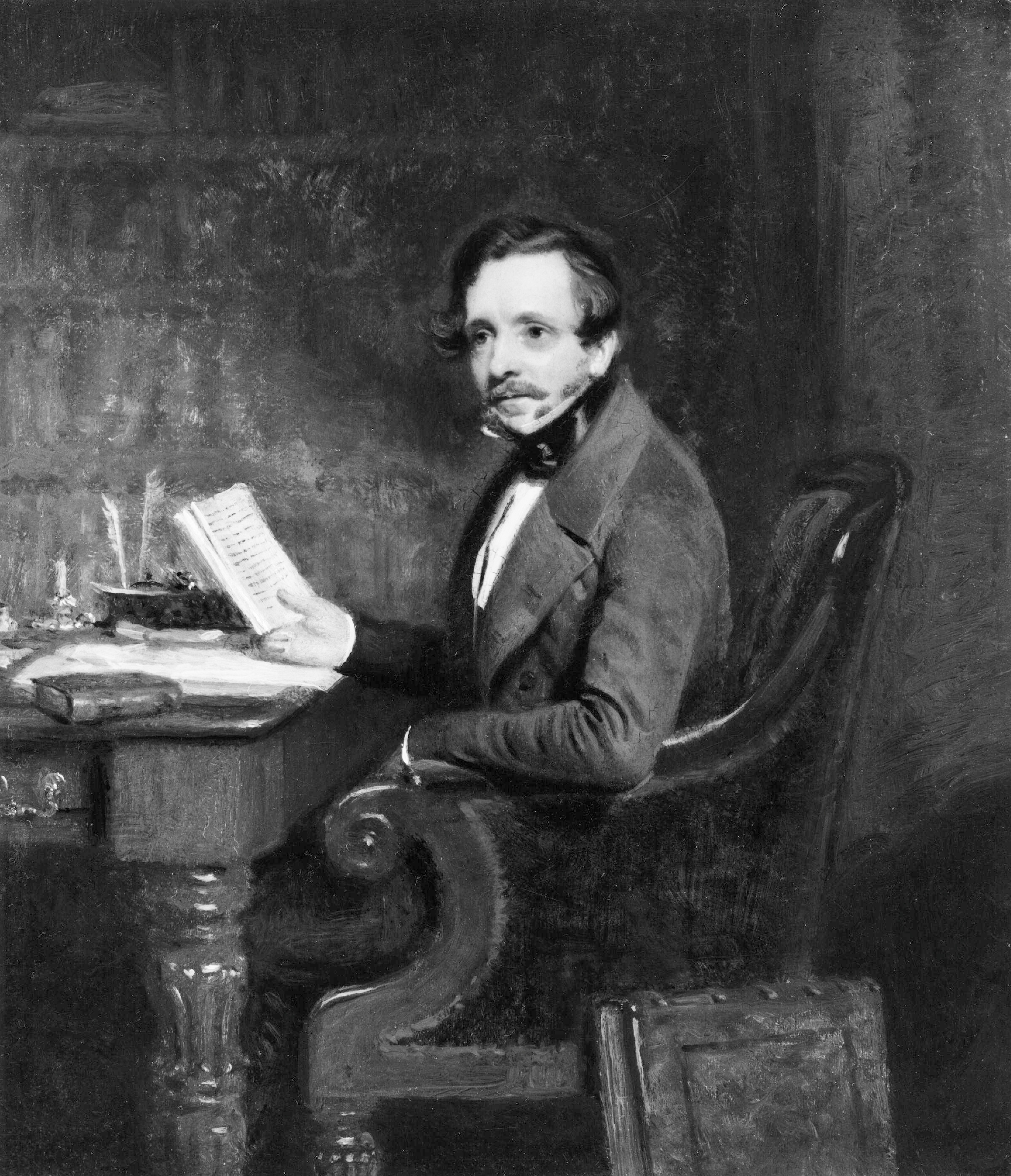 work given to the National Portrait Gallery, London in 1900. All images in this batch have been confirmed as author died before 1939 according to the official death date listed by the NPG.